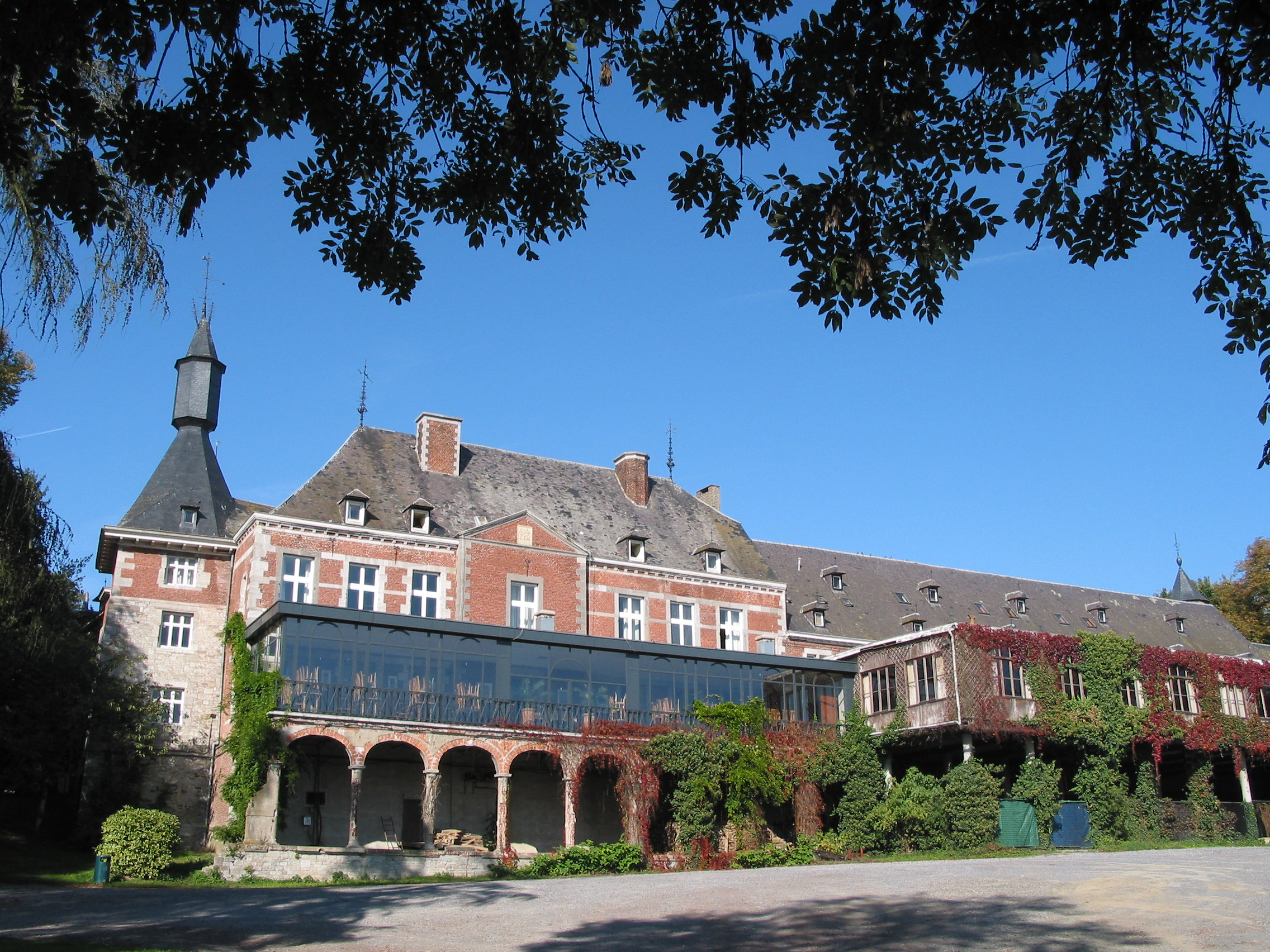 Oteppe (Belgium), the castle (XVIIth century).